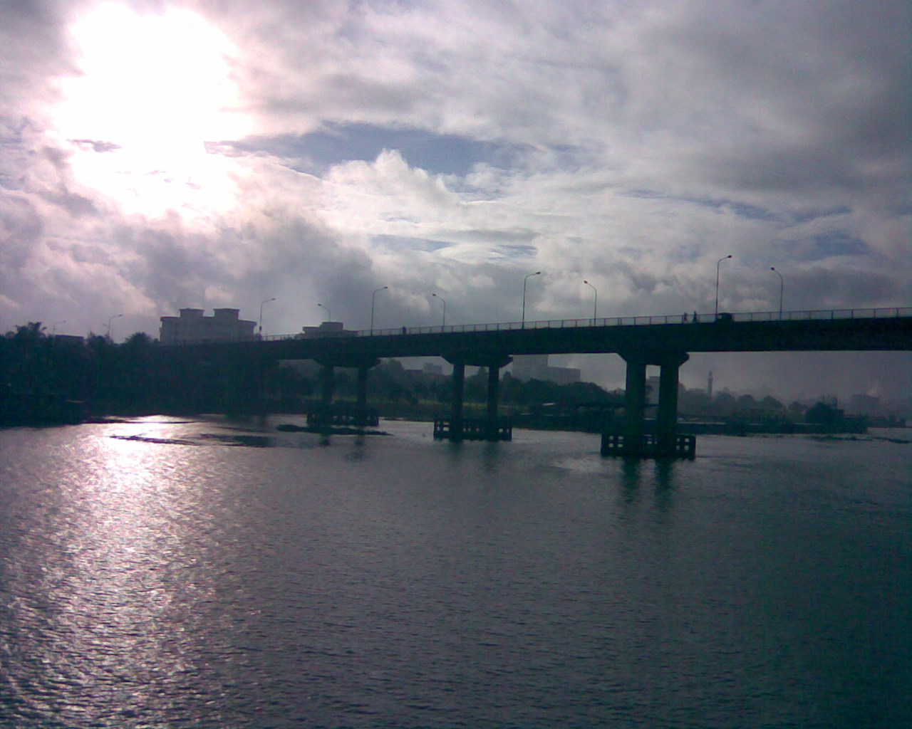 Buriganga Bridge, Dhaka